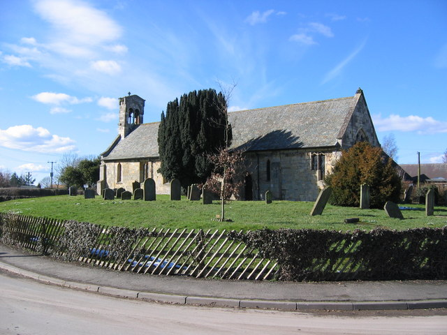 St. Giles Church, Burnby, East Riding of Yorkshire, England.View NW to St. Giles.